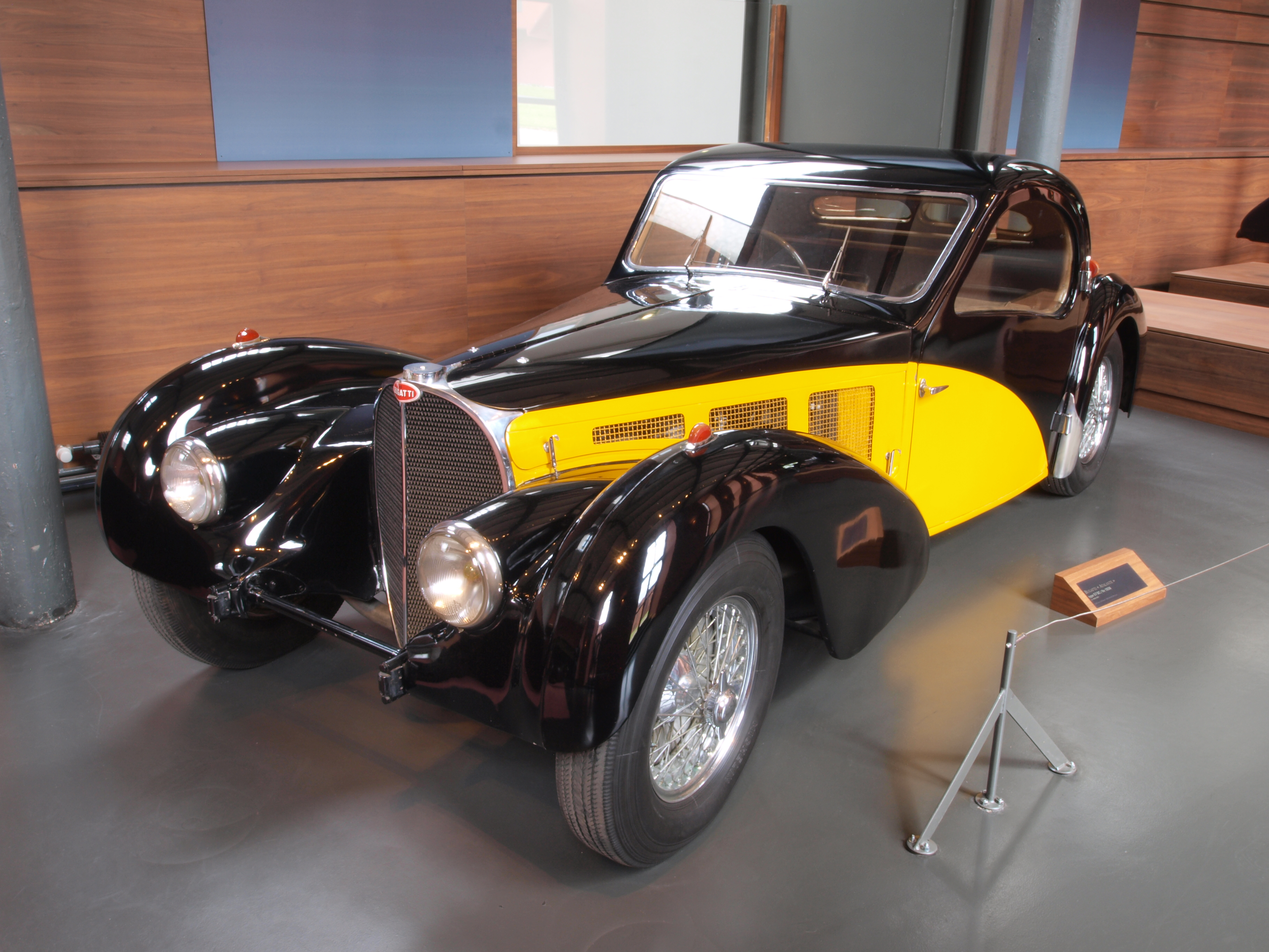 Photographed at the Cité de l’Automobile, France. OLYMPUS DIGITAL CAMERA